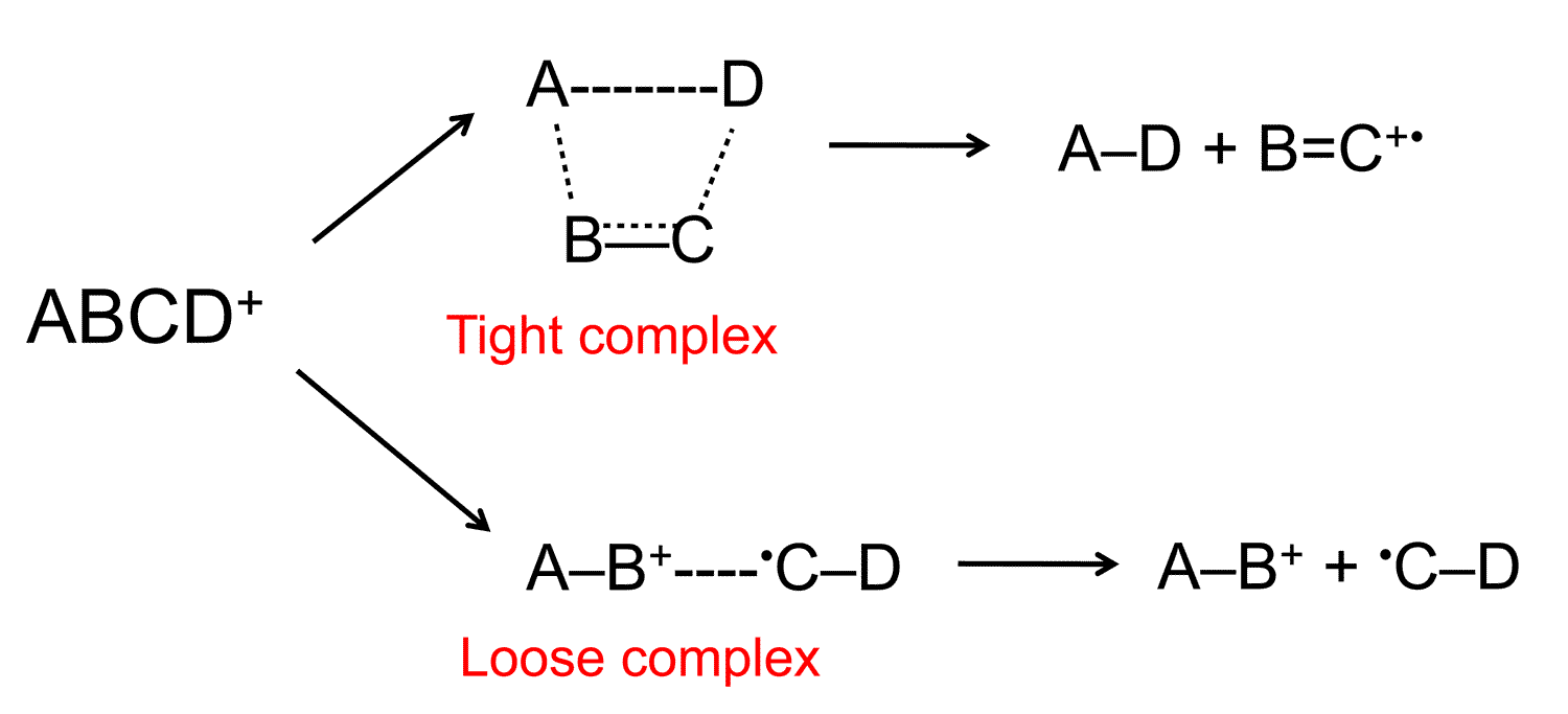 Schematic of "tight" and "loose" transition state complexes for a hypothetical ion ABCD+. Modeled after Figure 7.2 in "Interpretation of Mass Spectra" 4th ed. by McLafferty and Turecek.